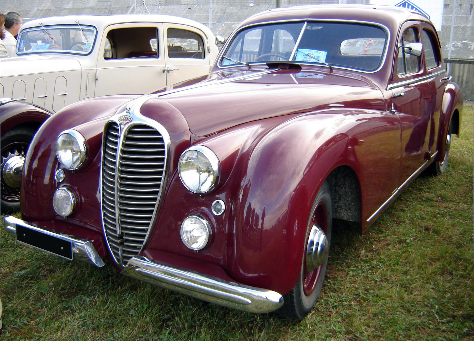 1949 Delahaye type 148 L Berline four-door, bodywork by Letourneur & Marchand at Montlhéry, 2009